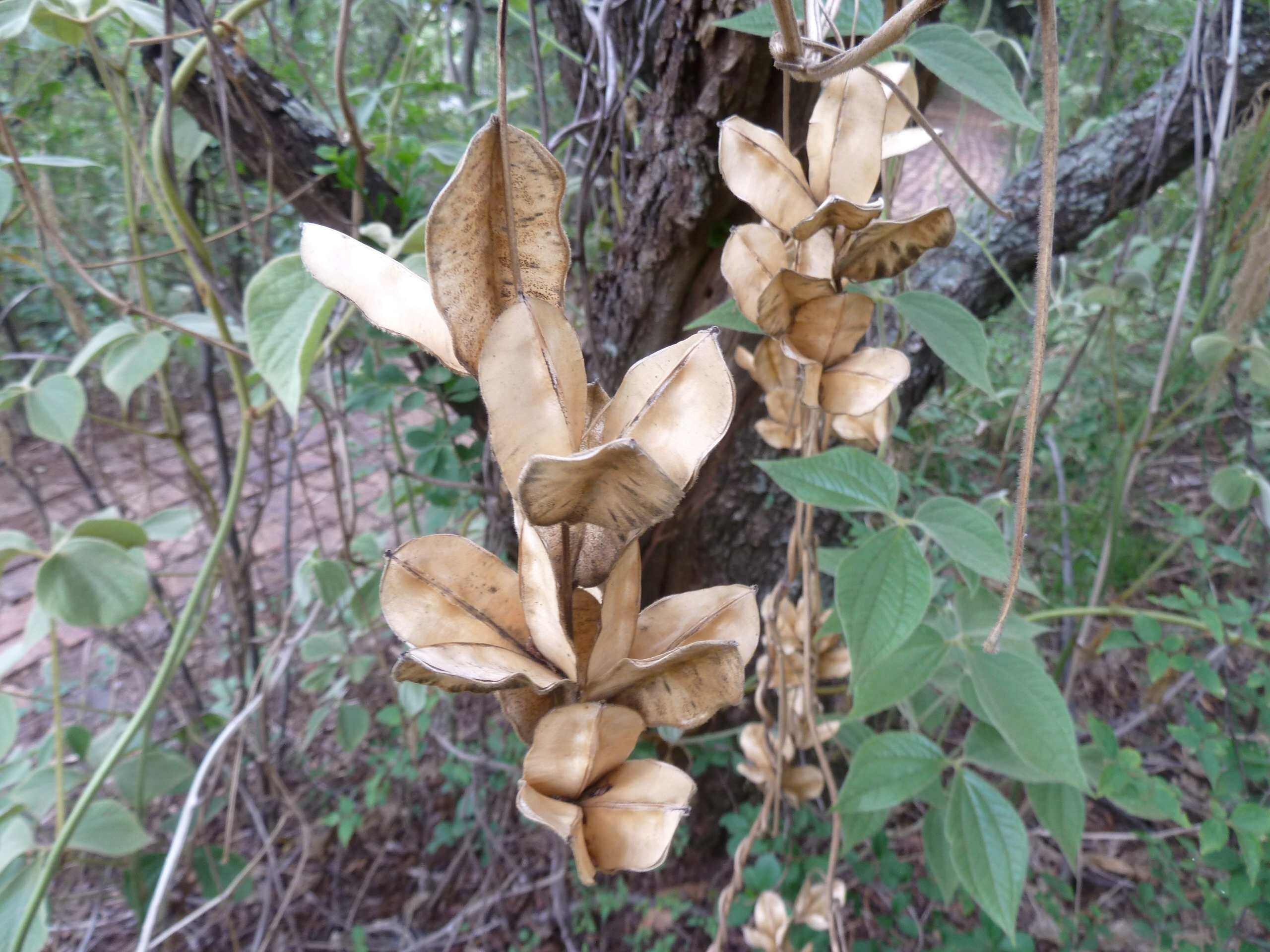 Wild yam in the Walter Sisulu National Botanical Garden at Roodepoort, Gauteng